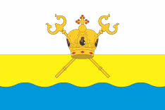 Flag of Mykolaiv Oblast, Ukraine